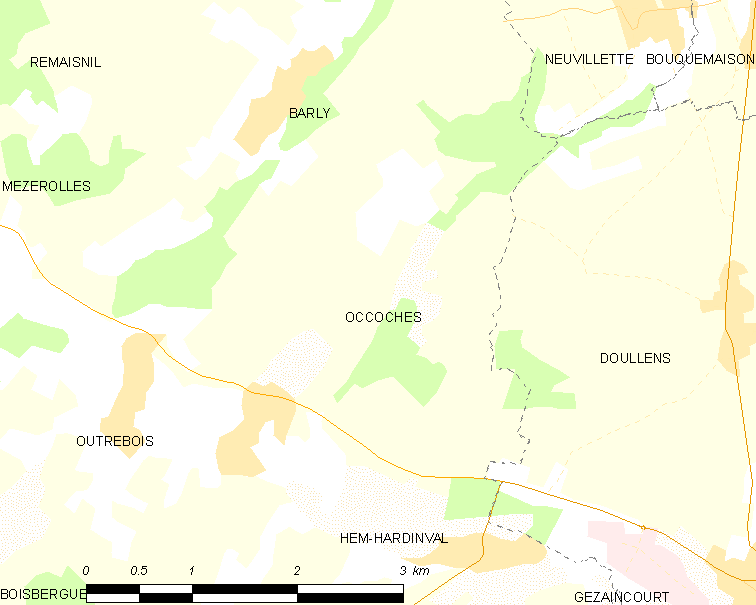 Map of French municipality Occoches